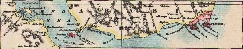 Perim and Aden (in pink). Insert cropped from an 1899 map showing Great Britain's two possessions in Southern Arabia and the Red Sea at the time.